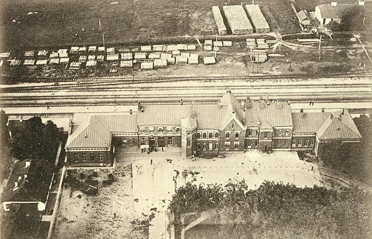 Train station in Berdychiv